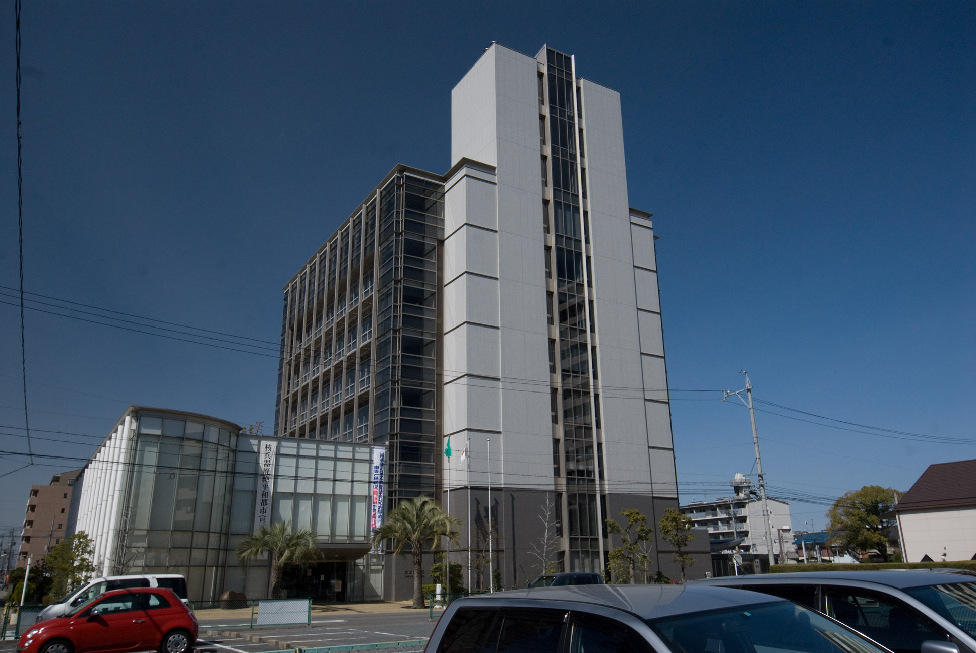 Iwakura CIty Office